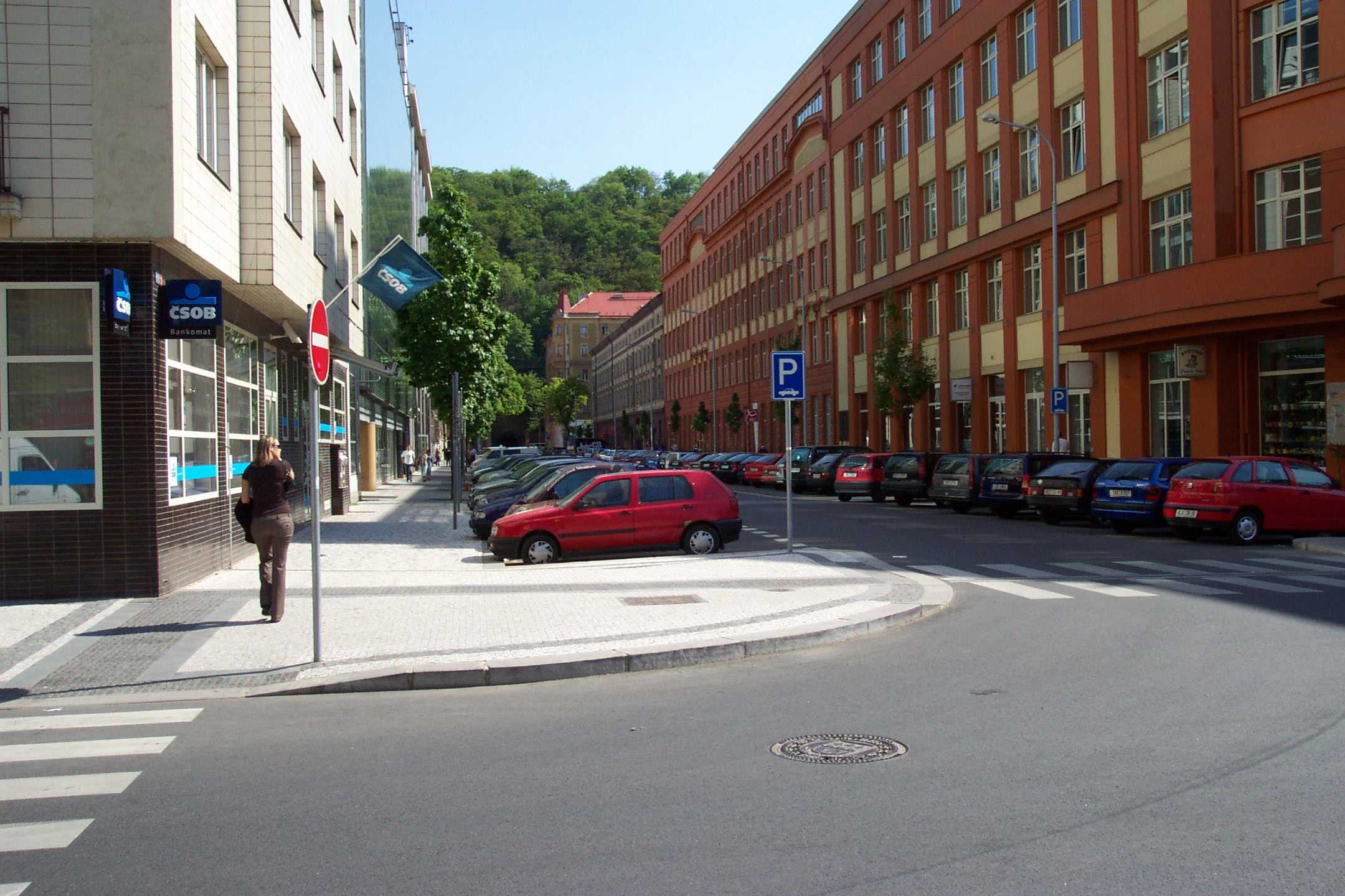 Thám Street at Praha-Karlín